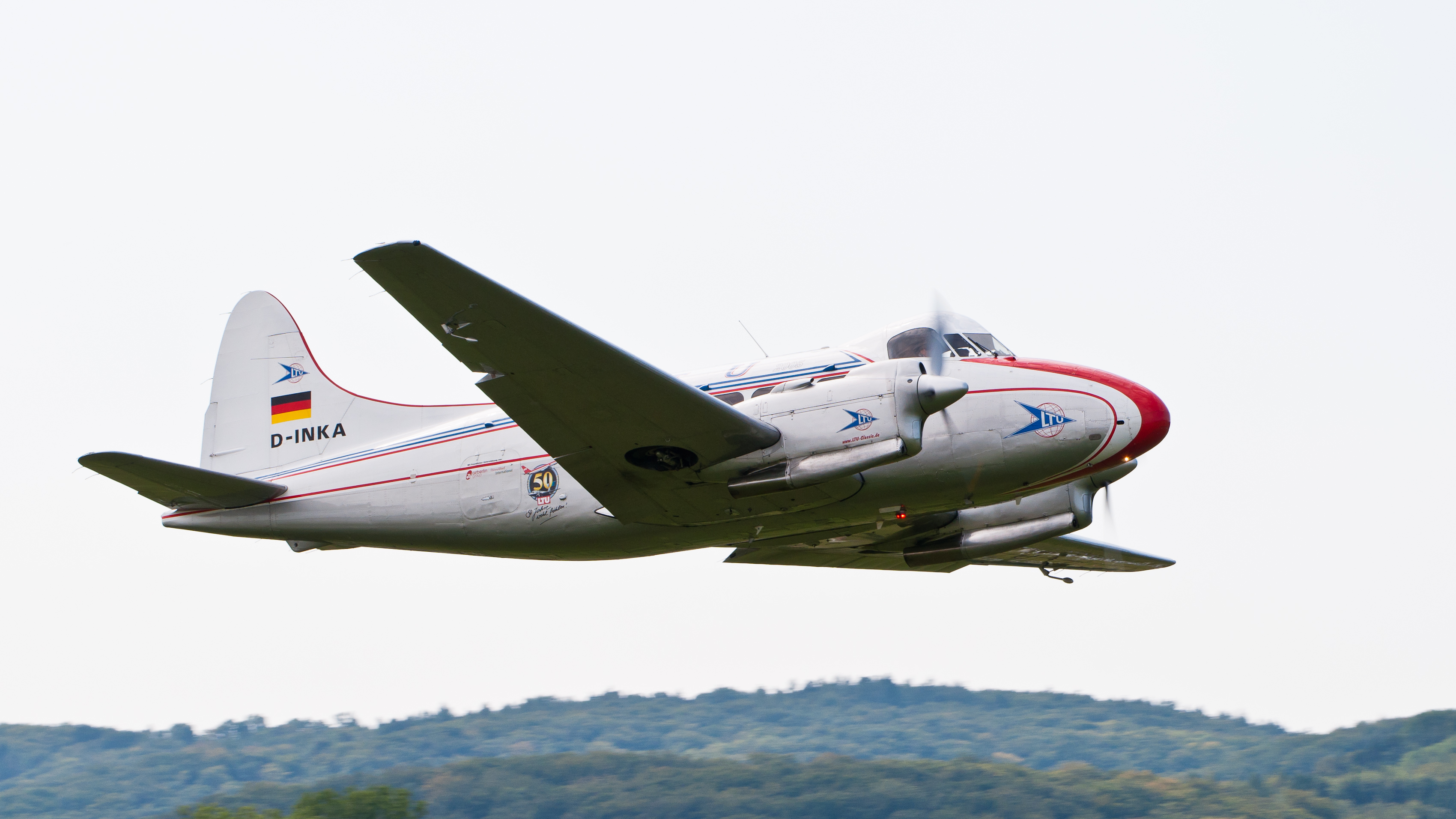 LTU - Lufttransport-Unternehmen De Havilland DH-104 Dove 8 (reg. D-INKA, cn 04266, built in 1949). Engine: 2 × deHavilland GQ 70.